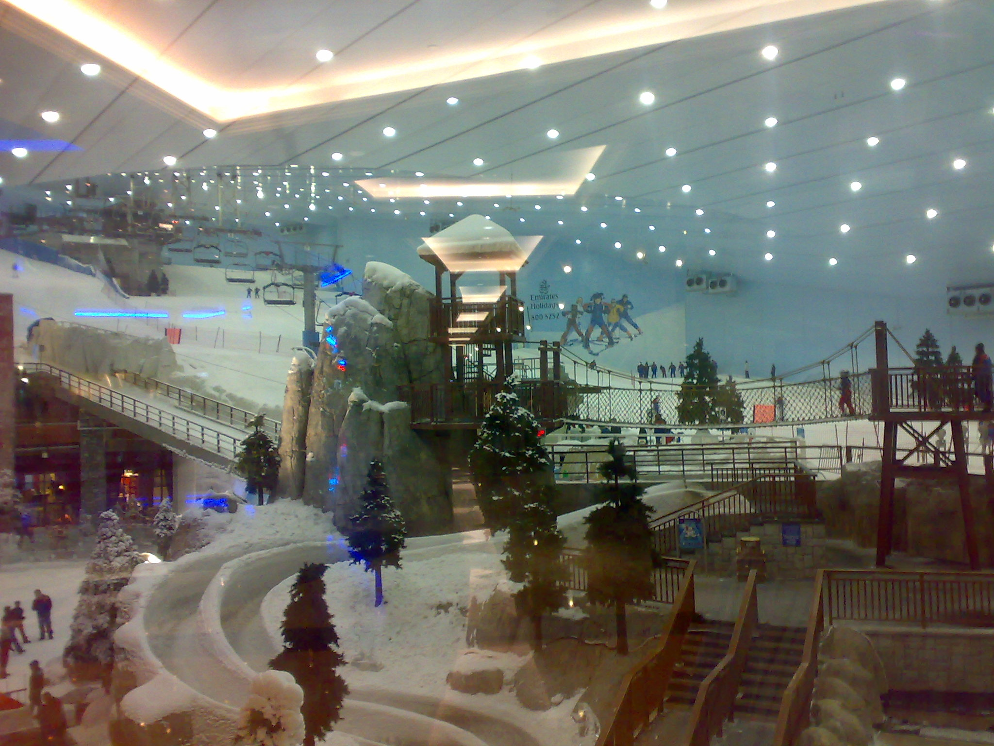 Ski Dubai, at Mall of the Emirates, Dubai (UAE)